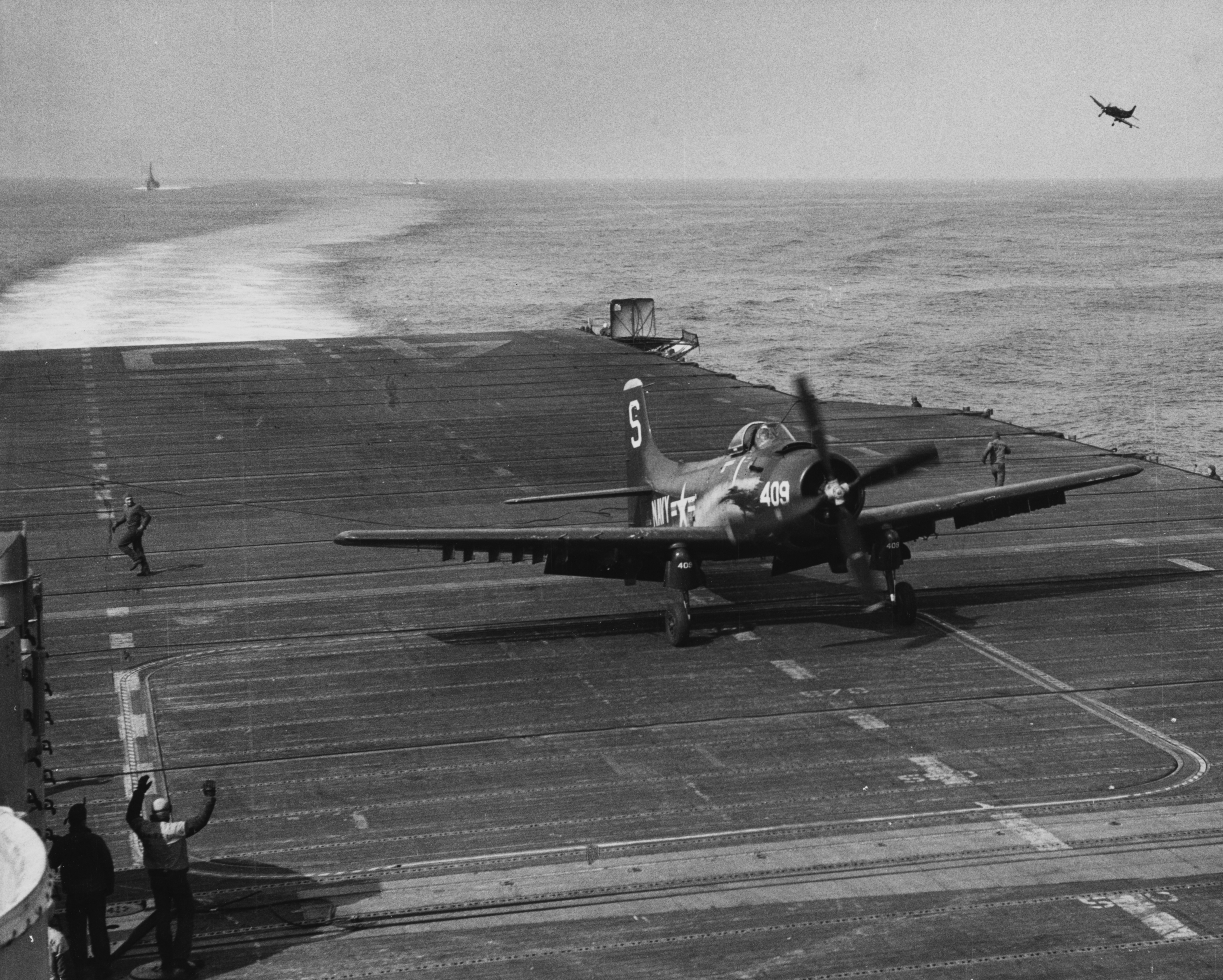 U.S. Navy Commander C.V. Johnson taxies forward after making the 50,000th landing aboard the aircraft carrier USS Valley Forge (CVA-45), during operations off Korea on 10 May 1953. His plane is a Douglas AD-4 Skyraider from Fighter Squadron 54 (VF-54) "Hell's Angels". Another Skyraider is flying in the upper right. Note the ship's arresting gear wires, after elevator, and flight deck crewmen. Valley Forge, with assigned Carrier Air Group 5 (CVG-5), was deployed to Korea from 20 November 1952 to 25 June 1953.